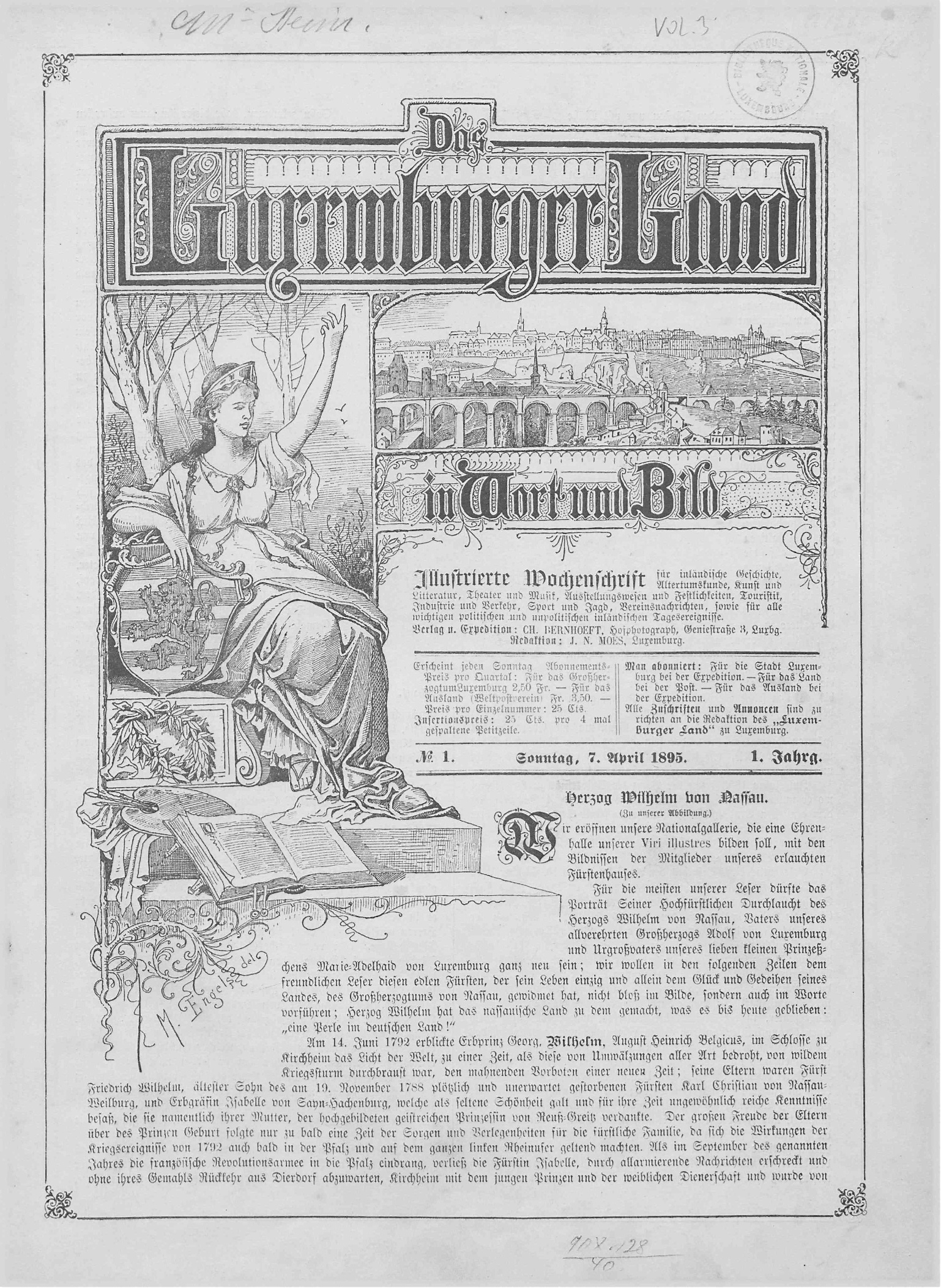 Front page of the first edition of Das Luxemburger Land in Wort und Bild (1895-04-07) by Jean-Nicolas Moes (1857-1907) and Charles Bernhoeft (1857-1933).